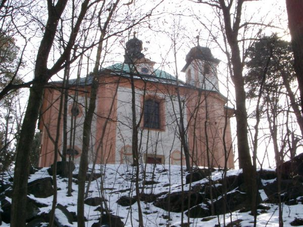 Baroque chapel of the Visitation on the Vršíček hill near Litohlav in Rokycany District, Czech Republic